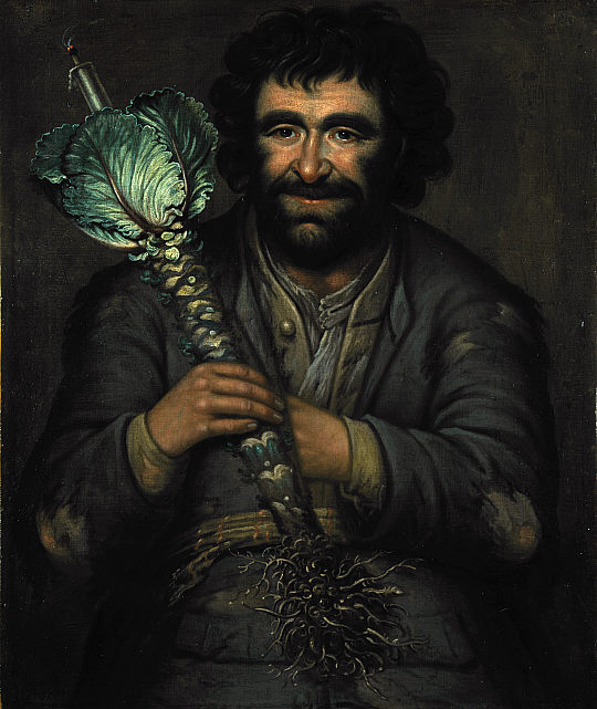 This grinning man holds a kail stock with a burning candle stuck in the top. This helps identify him as the fool or jester of a Scottish laird, who probably presided over Halloween festivities, such as those described in Robert Burns' poetry. Traditionally, unmarried men and women pulled up kail stocks to confirm the character of their future partner. A candle was then stuck into the end to make a torch. This portrait, painted in 1731, was possibly part of a series depicting Scottish clan members.